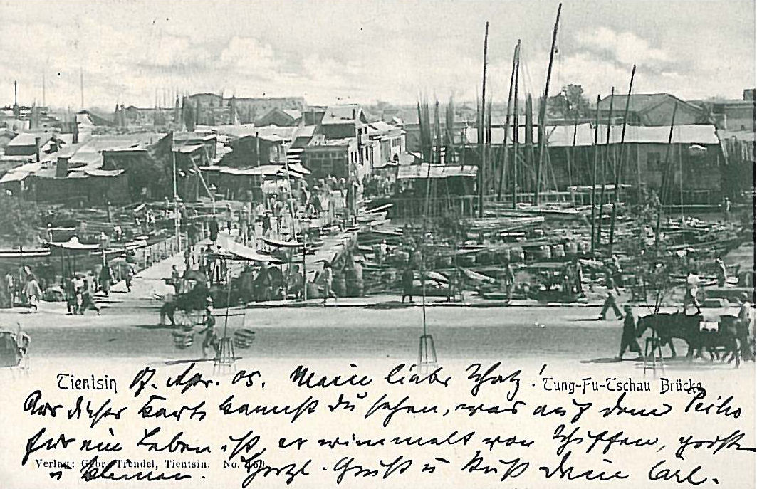 historical view of Tianjin